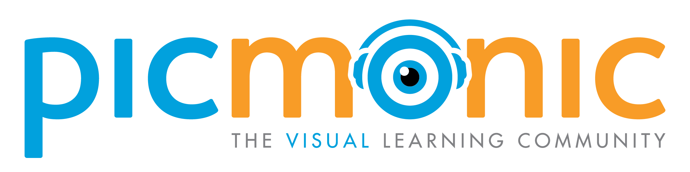 Logo